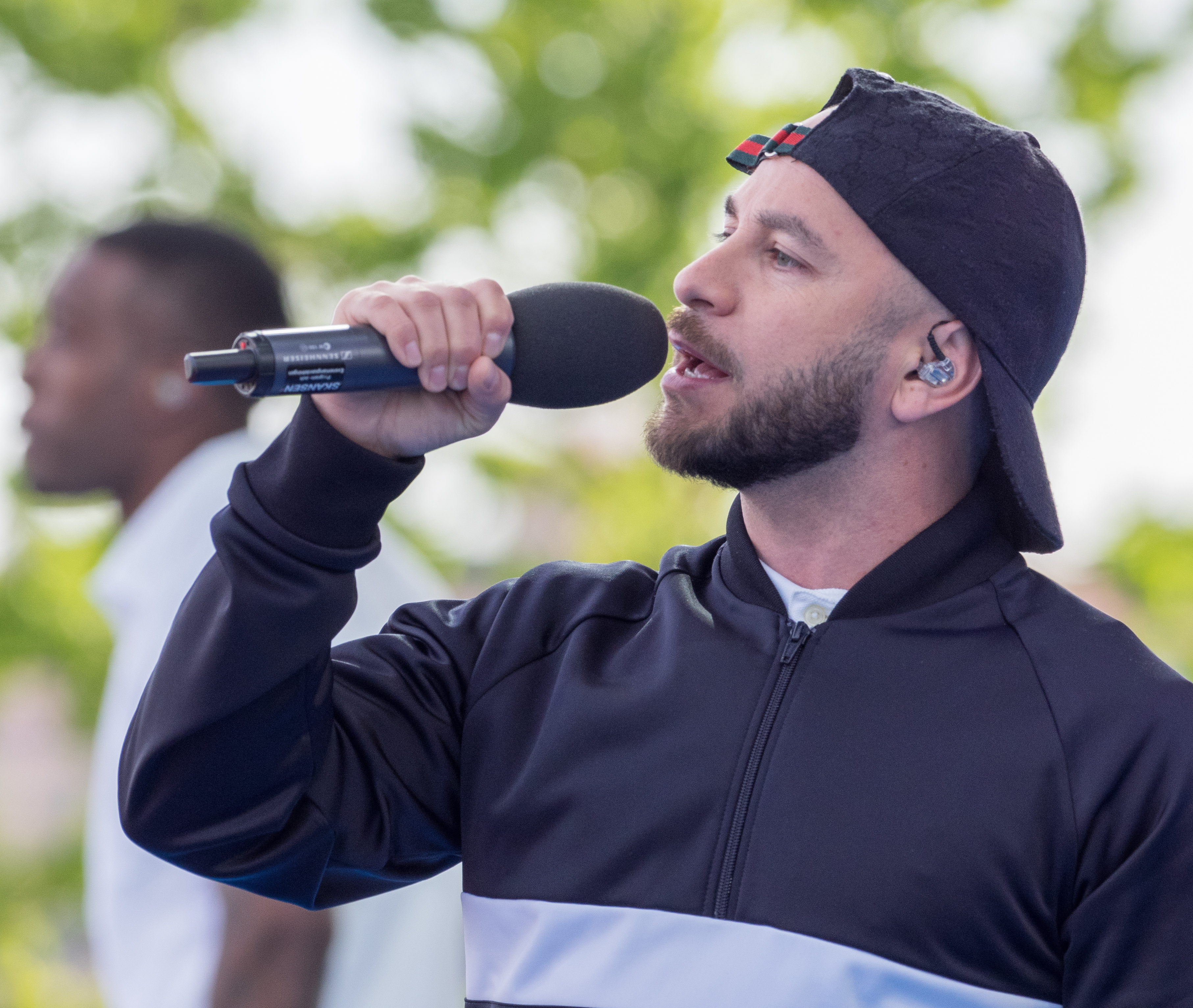 National Day of Sweden 2016 at Skansen Stockholm 6 of June